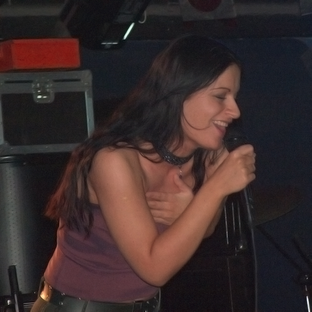 Maja Konarska from Moonlight during Dark Stars Festival Tour 2003 in Proxima club (Warsaw, Poland), November 09, 2003.